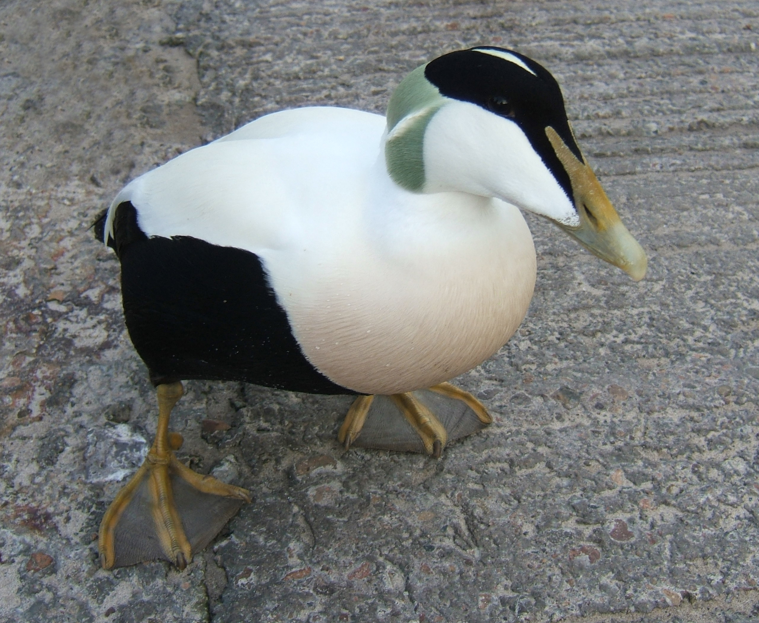 Common Eider Somateria mollissima, drake. Seahouses Harbour, Northumberland.